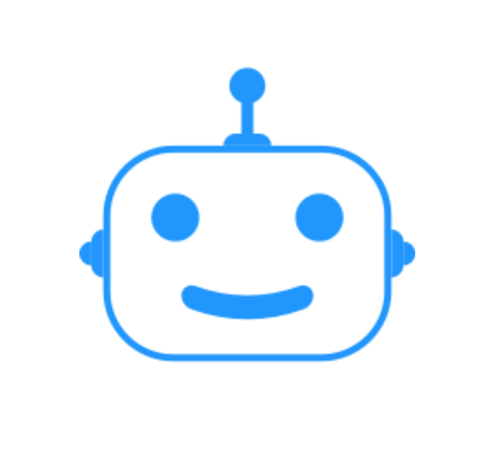 Noxtton Bot Icon